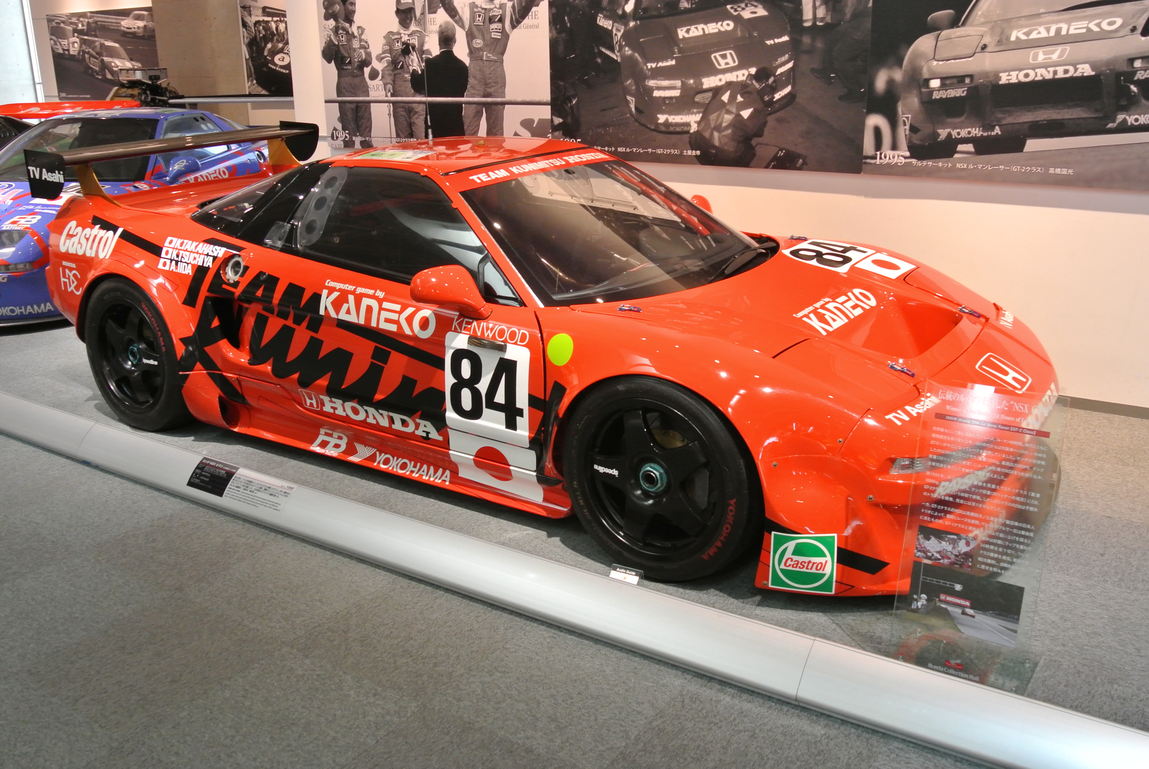 1995 24 Hours of Le Mans Honda NSX in the Honda Collection Hall.